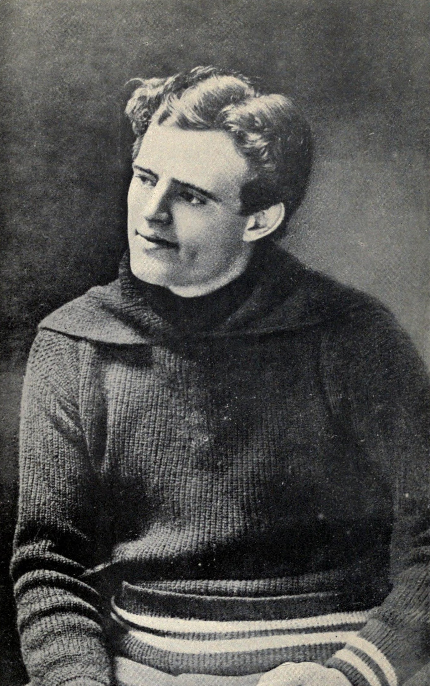 The first picture of himself that Jack London gave to his wife Charmian